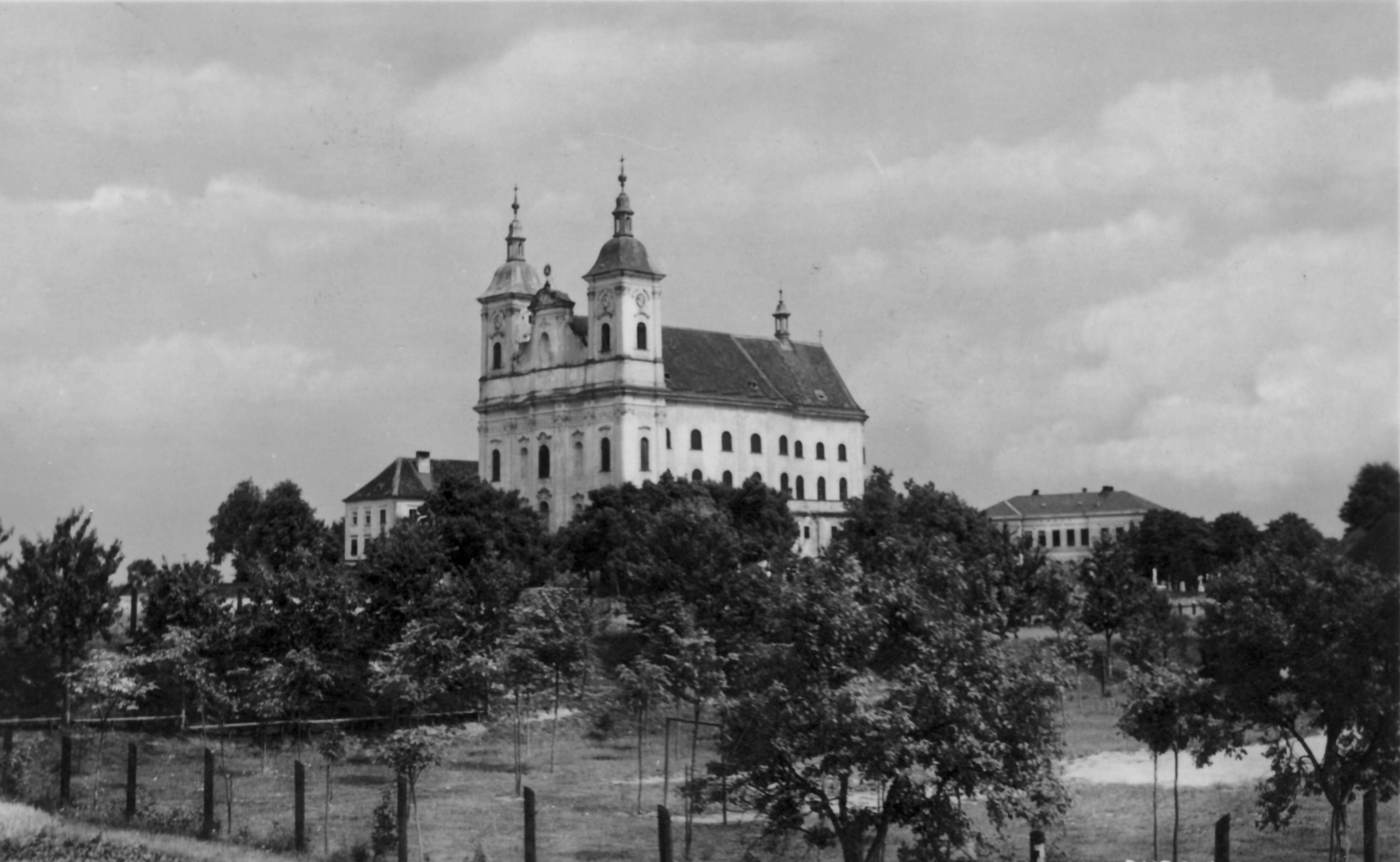 Cropped version of a historical postcard of the Church of the Purification of Mary in Dub nad Moravou. The message on the reverse was dated on 14 September 1930.